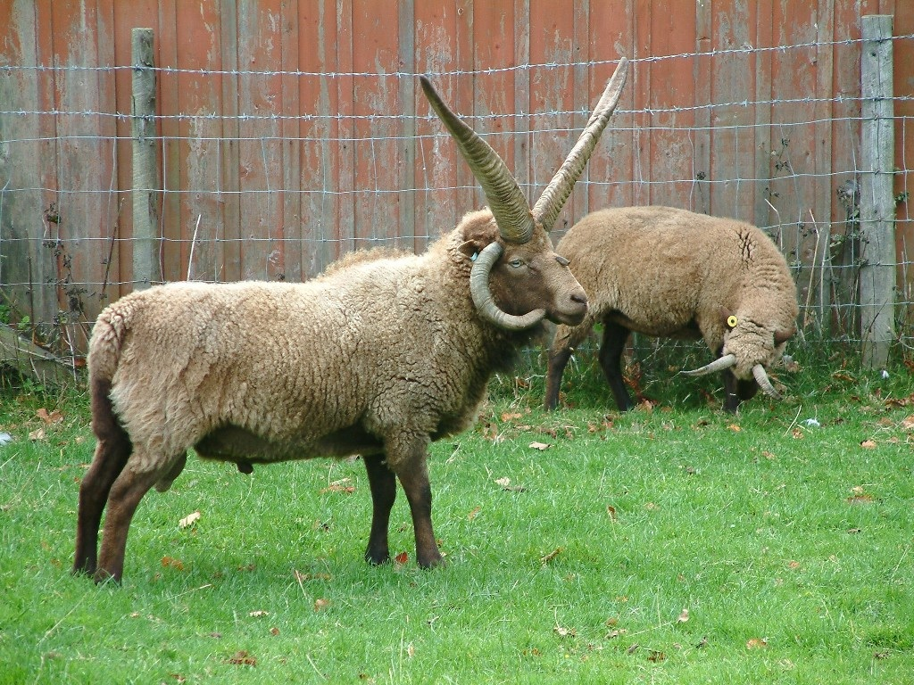 Photograph of Manx Loaghtan sheep taken at The Grove Rural Life Museum, Ramsey, Isle of Man on 30 September 2005